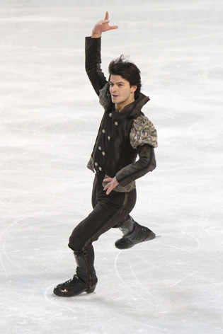 Stéphane Lambiel at the 2010 European Figure Skating Championships.